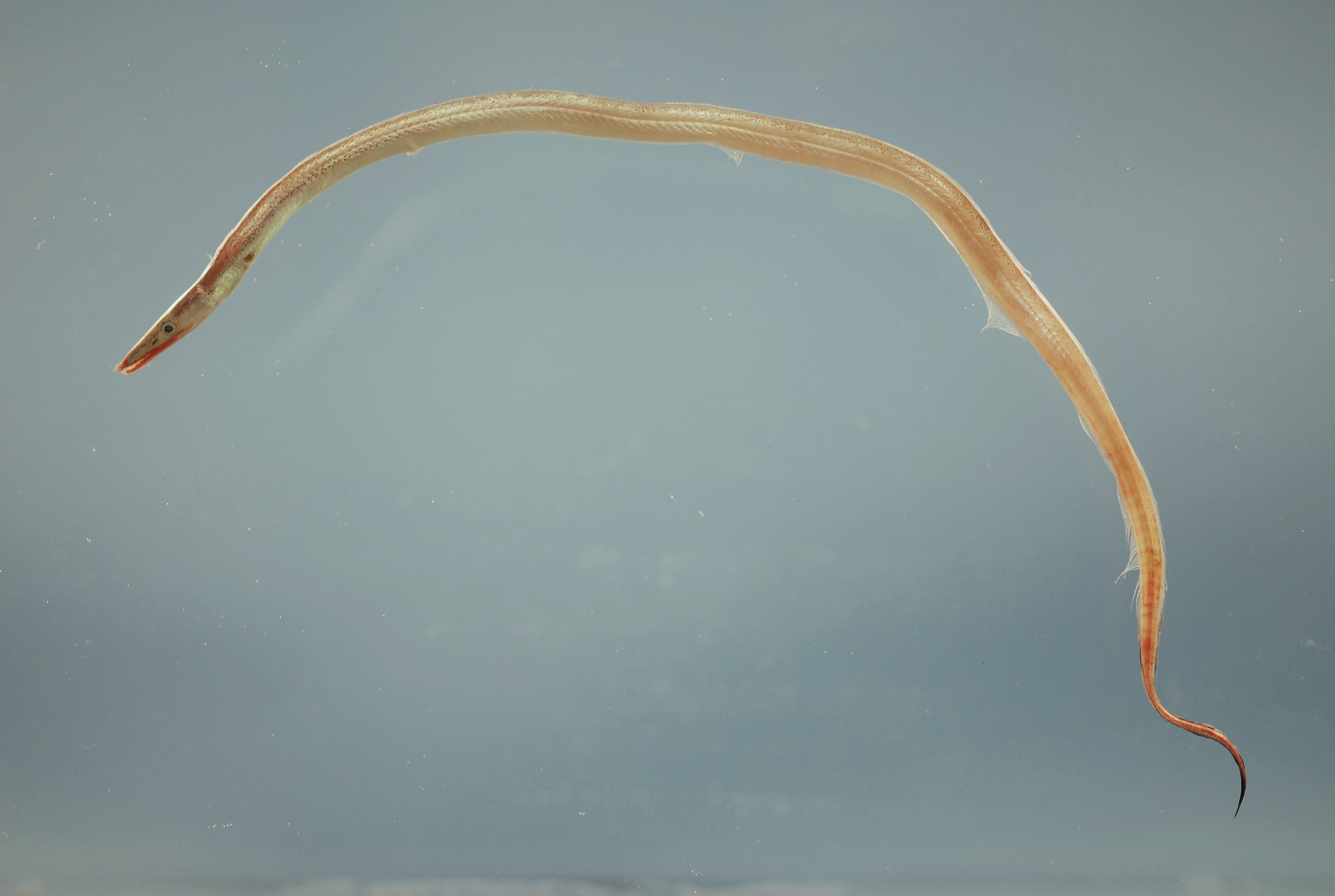 Freckled pikeconger ( Hoplunnis macrura ). Gulf of Mexico.